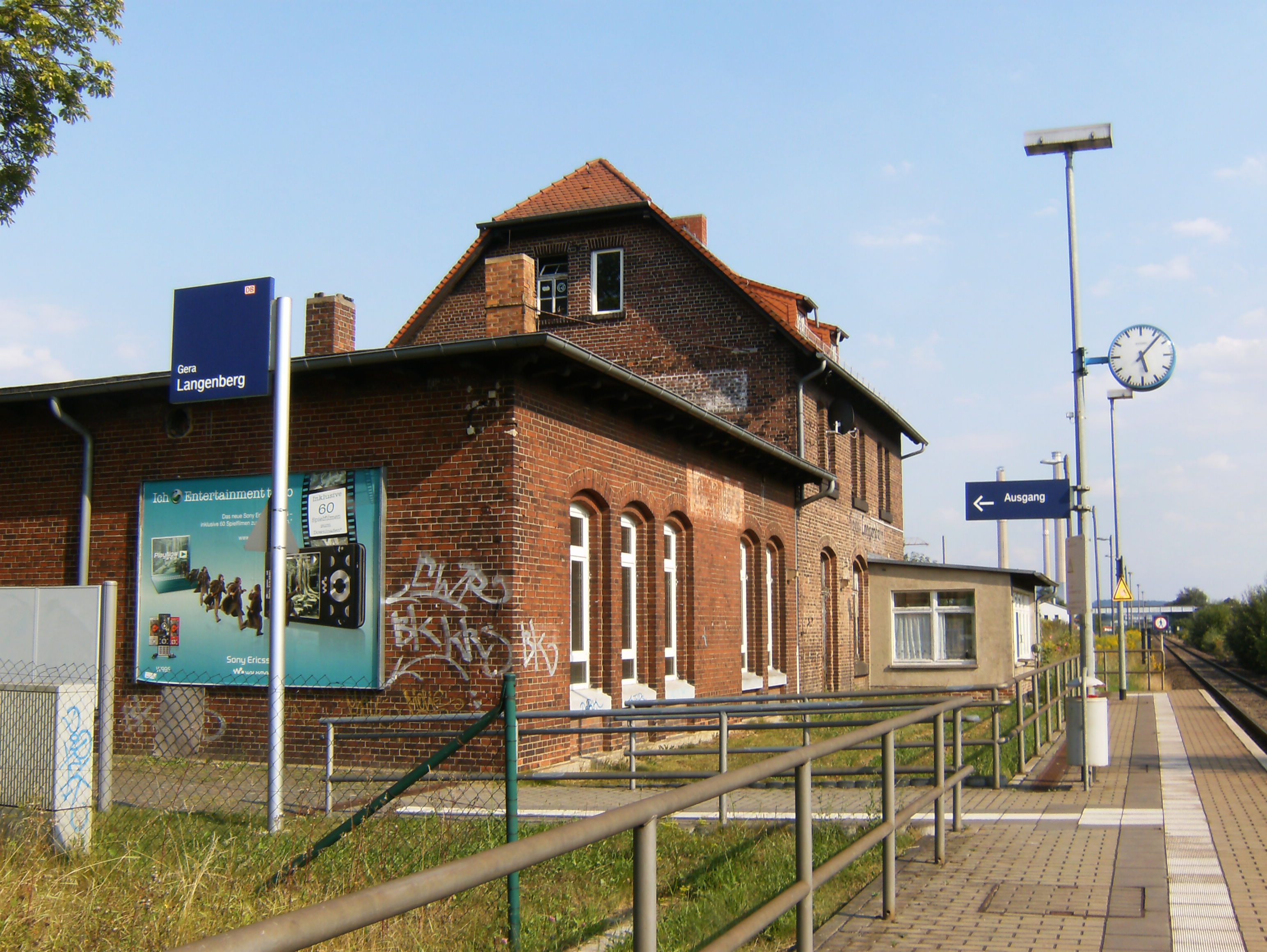 Gera Langenberg railway station.